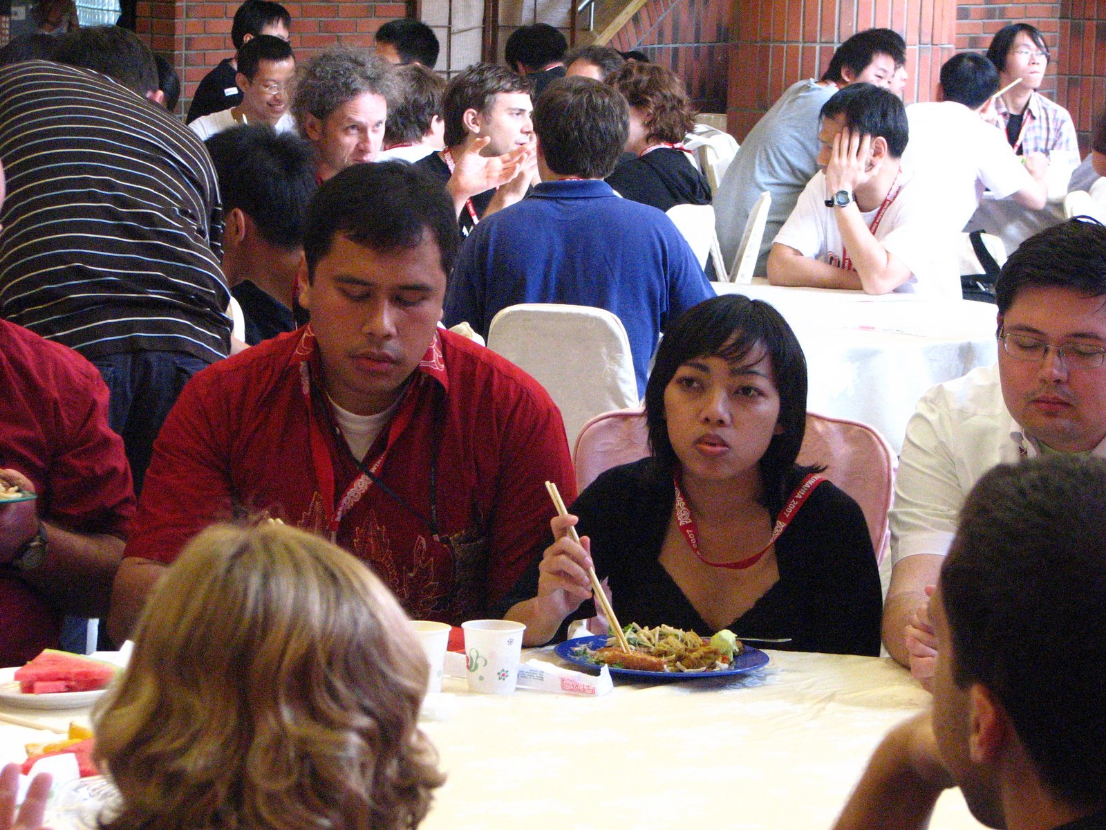 selfexplanatory